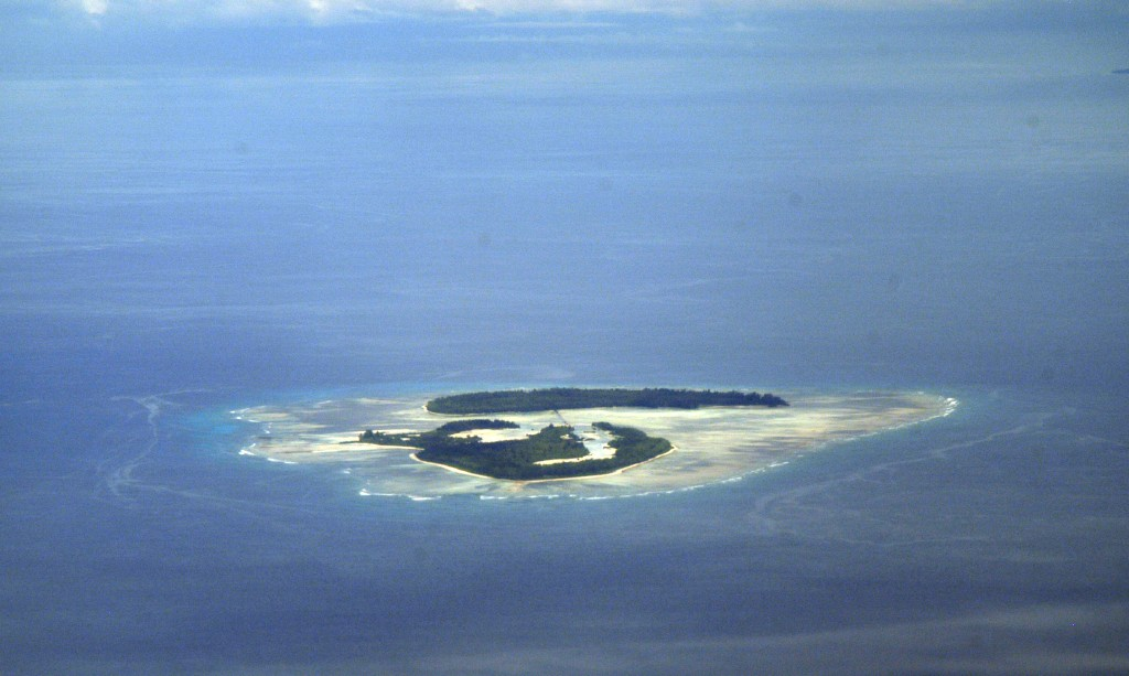 Aerial view of Poivre Atoll, as seen from South, Amirantes, Outer Islands of the Seychelles